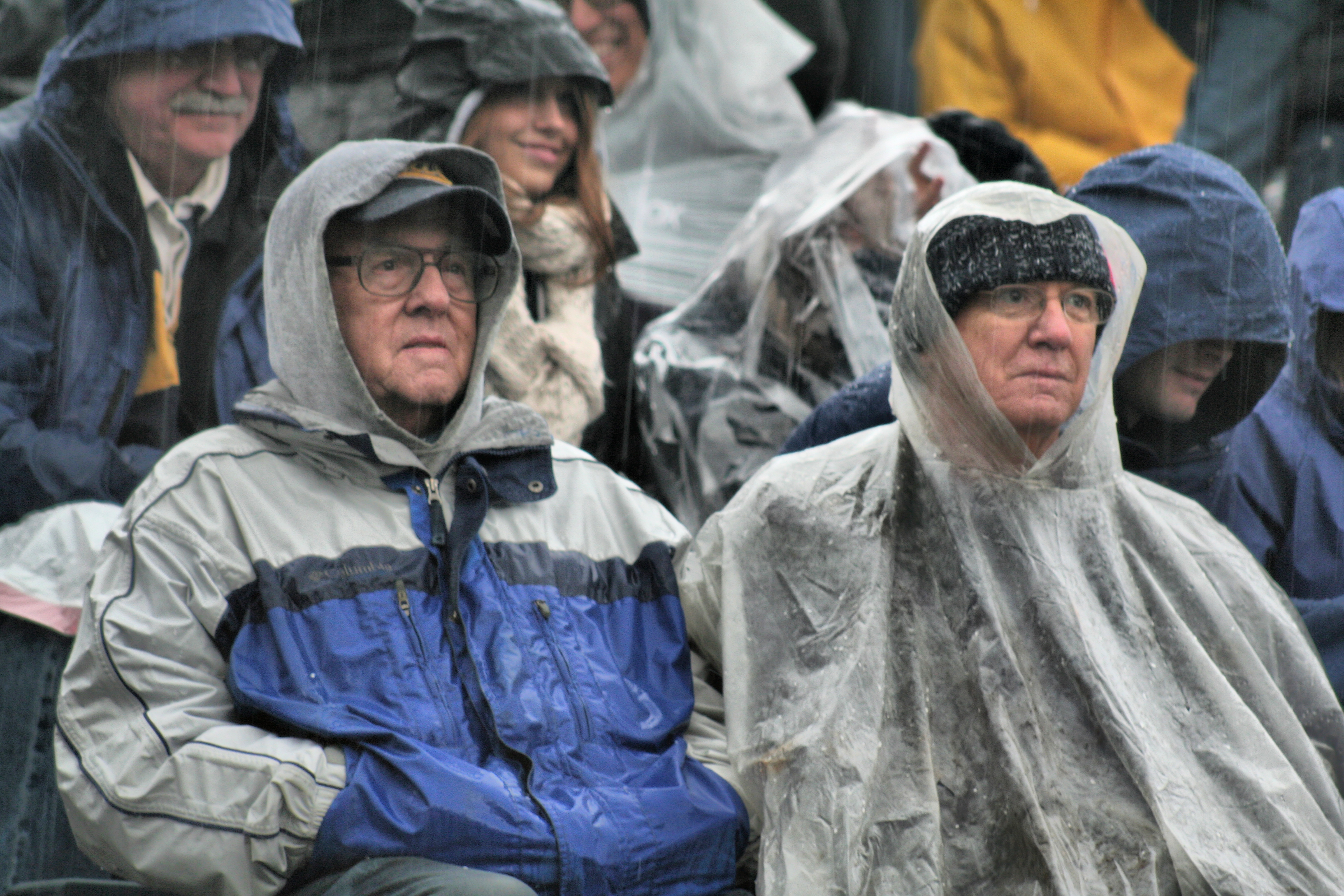 Football fans in California wearing various raingear.